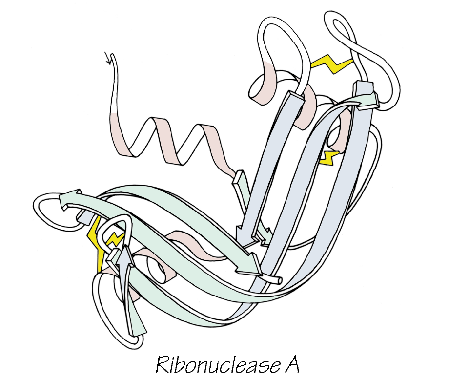 Ribbon drawing of ribonuclease A. The 4 disulfide bonds highlighted in yellow. Beta strands are arrows, pale blue on one side of the sheet and pale green on the other, and alpha-helices are pink spirals. Hand-drawn by Jane Richardson, 1980.